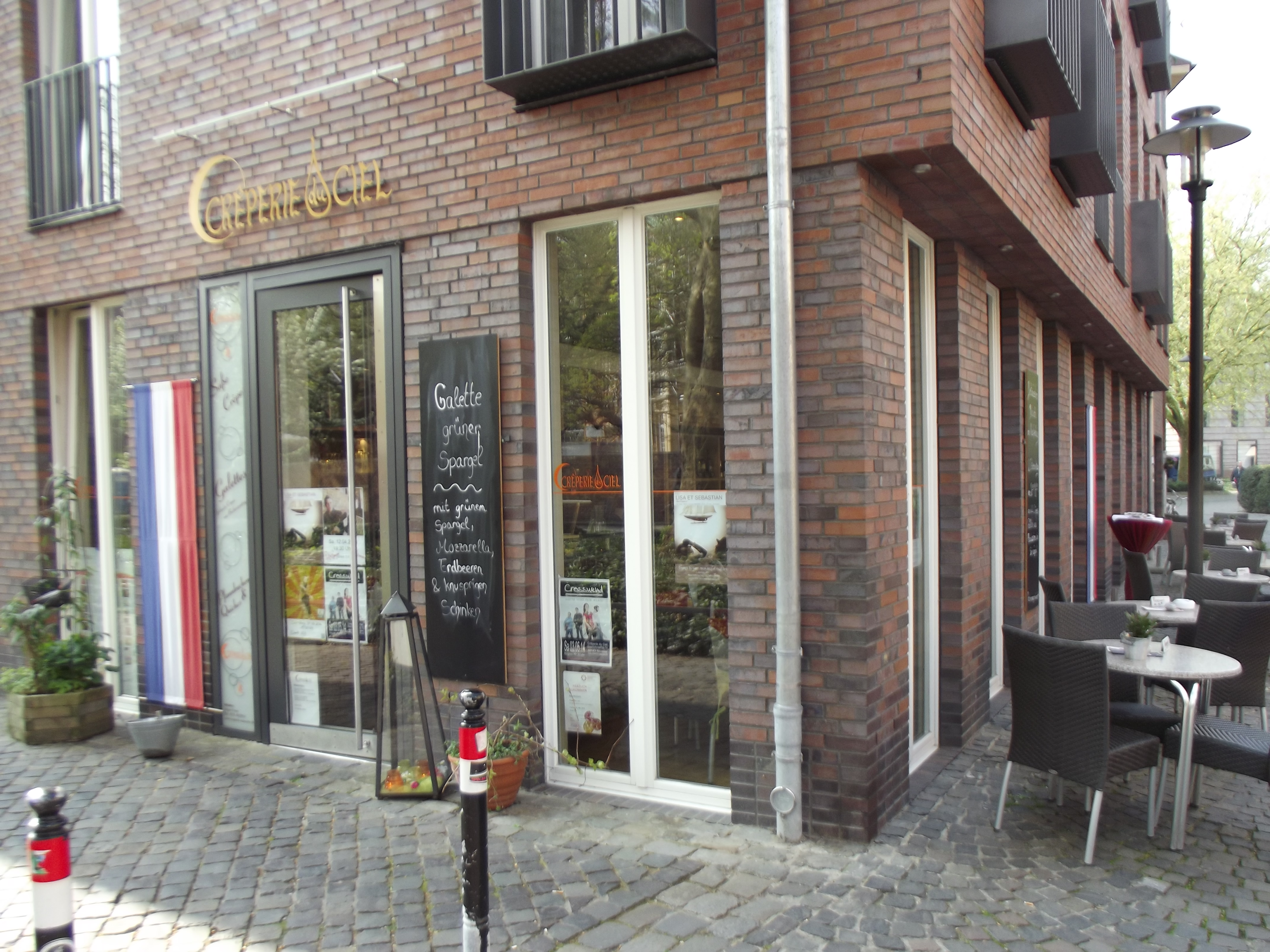 A francophile restaurant in Münster